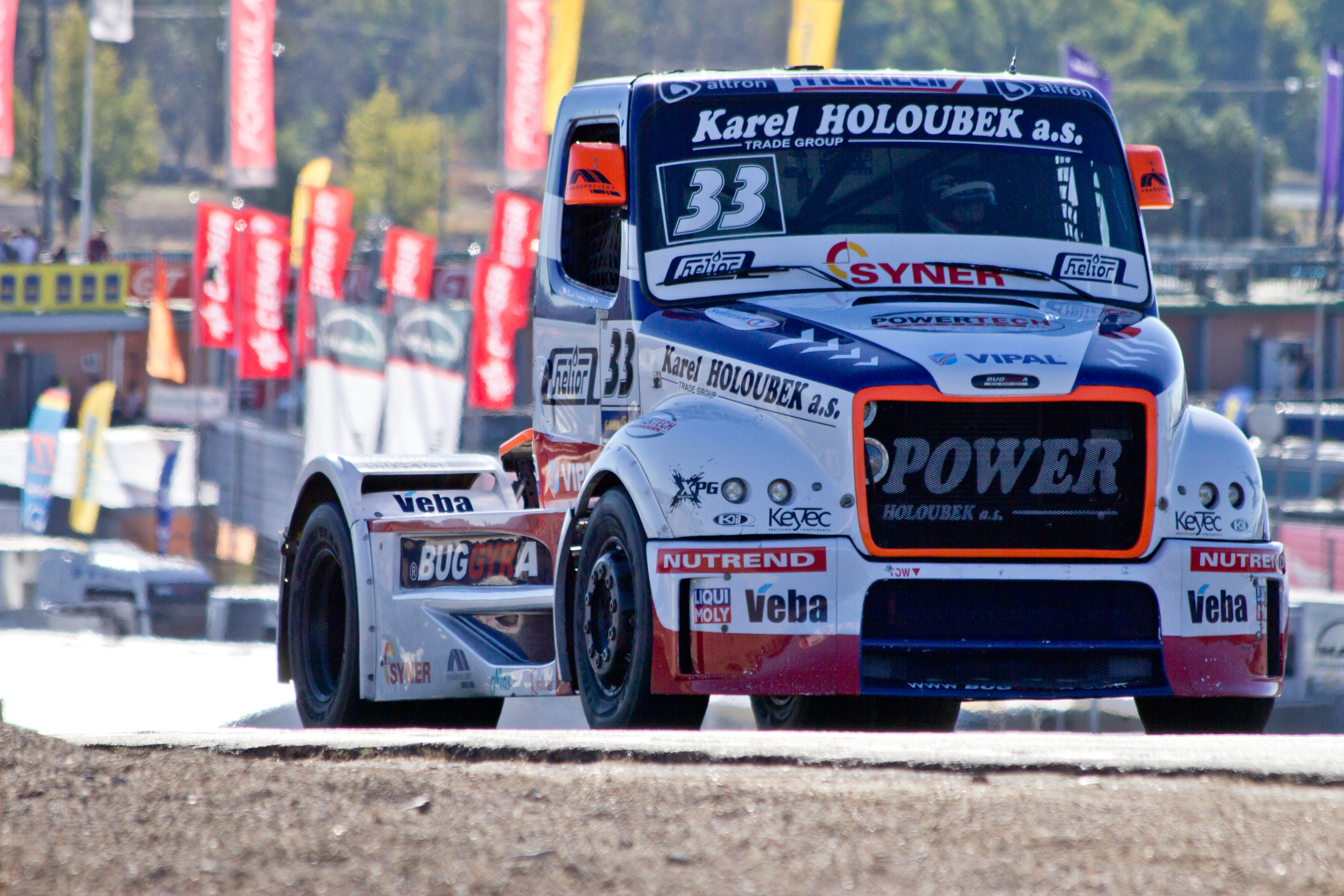 Truck pilot David Vršecký at the Spain Truck GP 2013.